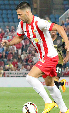 Édgar Méndez playing for UD Almería against Elche CF in 2014.